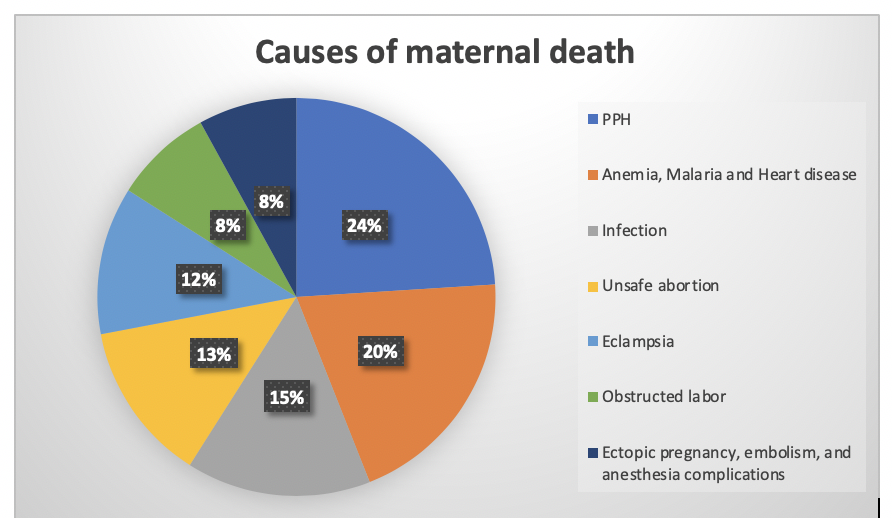 Maternal death in India